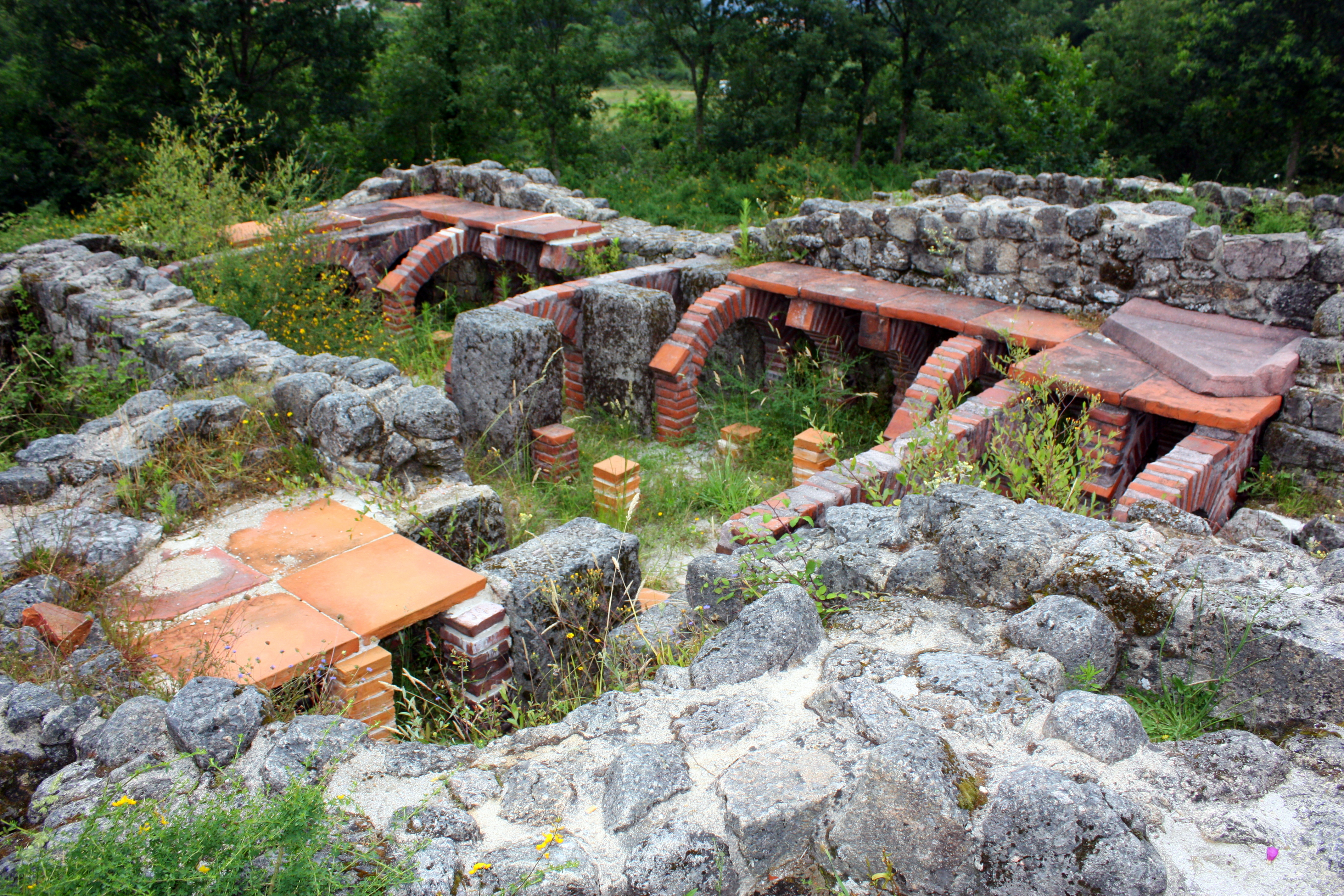 Ruins of and old Roman hostel with thermae in Lobios, Galicia (Spain).